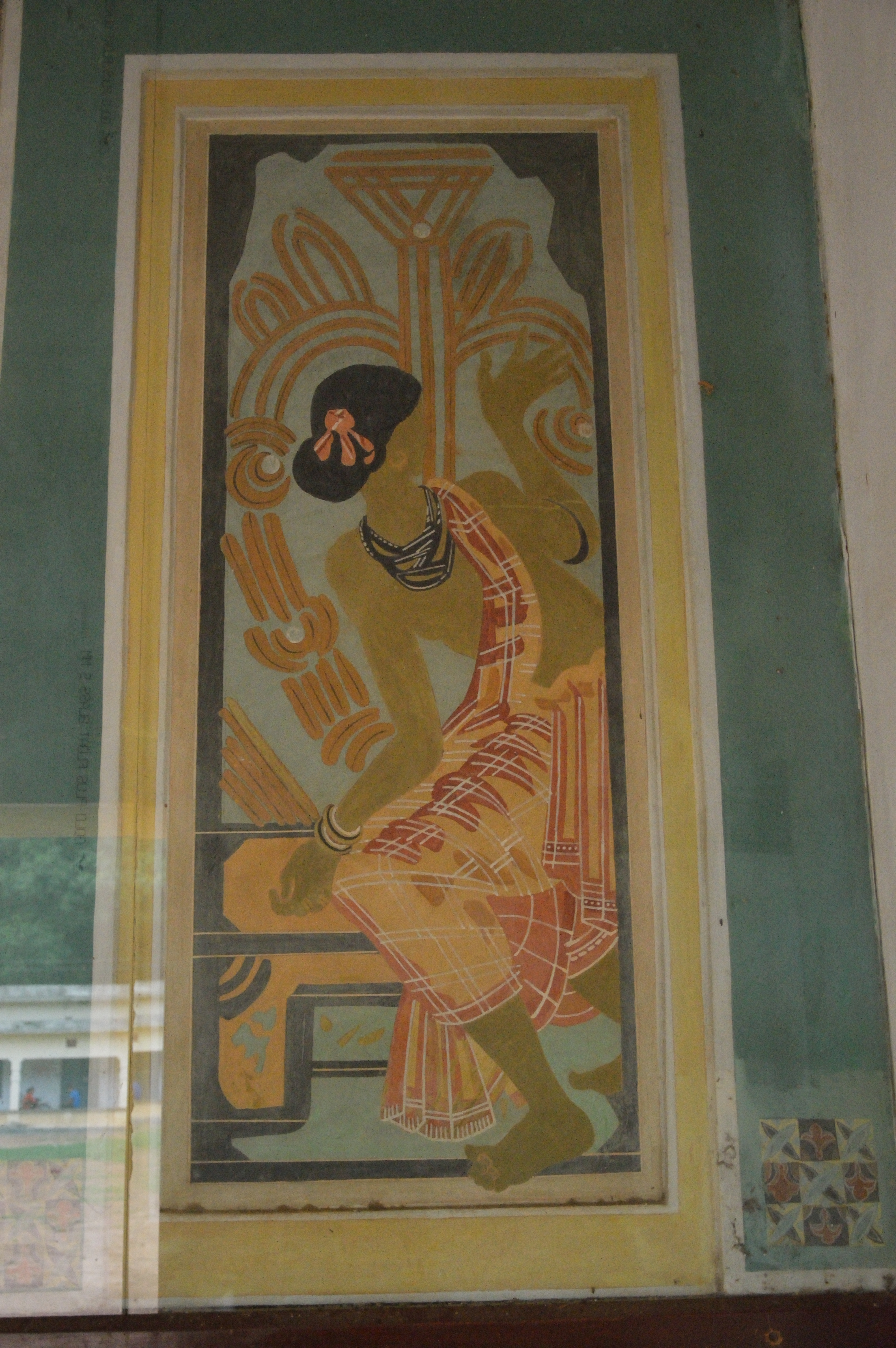 Photographed at The Visva-Bharati University complex, Santiniketan.